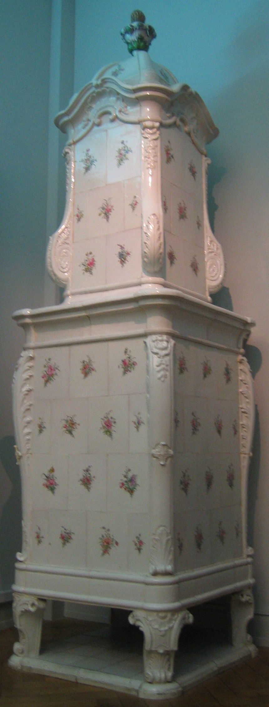 Fayence stove produced by the Bernese Frisching Faience Manufactory (1766/69). This faience stove was part of the interior decoration of the White House (Wendelstörferhof) of the Sarasin family in Basel. Today the faience stove is exhibited in the Historical Museum of Bern